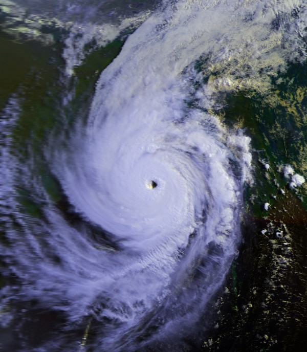 This image shows the 1991 Bangladesh cyclone strengthening on April 29 at 0019 UTC. This image was produced from data from NOAA-10, provided by NOAA.